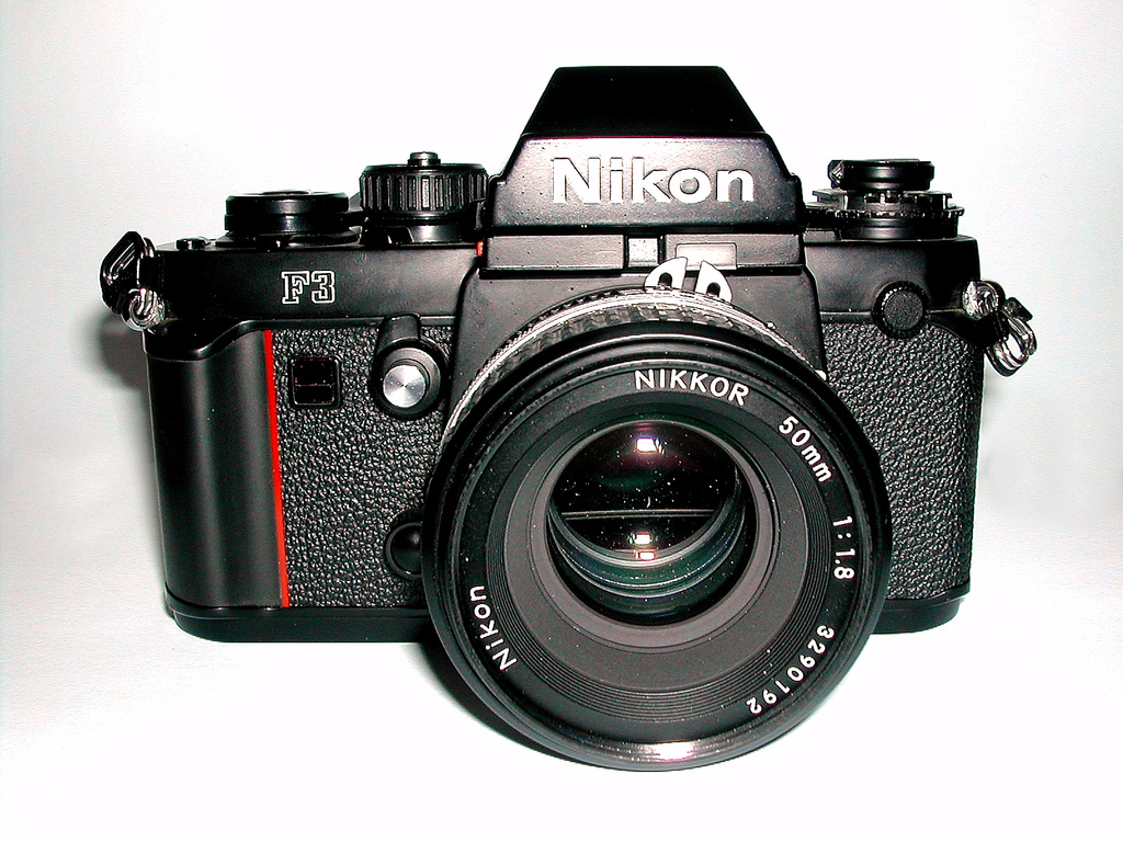 Nikon F3 SLR camera with Nikkor 50mm f/1.8 lens